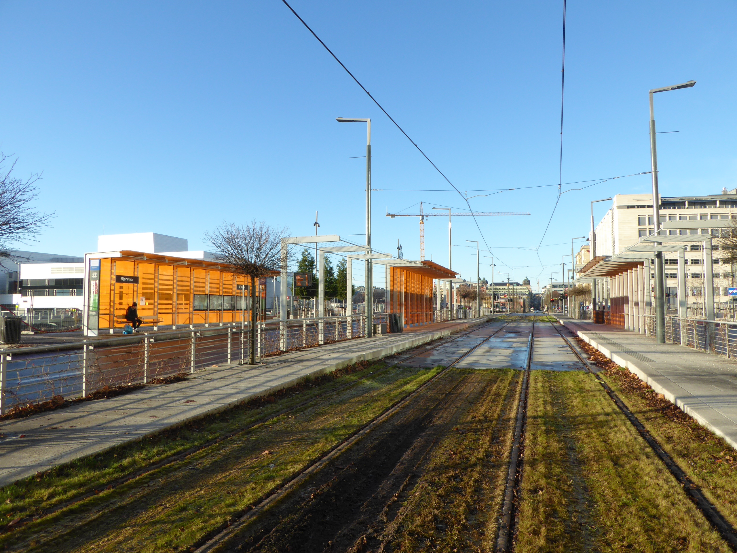 The new tram stop Bjørvika on Dronning Eufemias gate in Oslo. It will come into service in 2018.